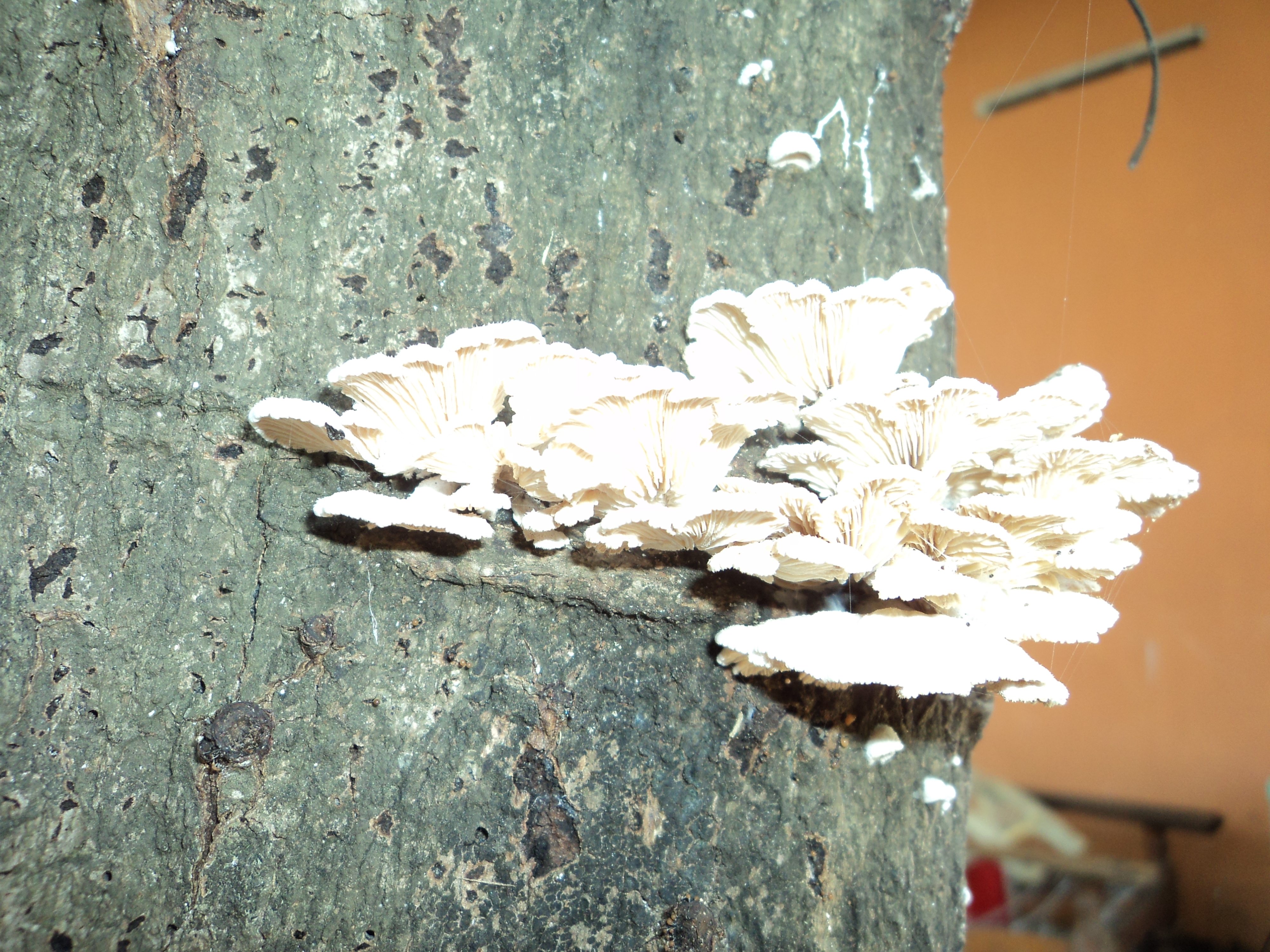 Mushroom grown in the bark of a tree.